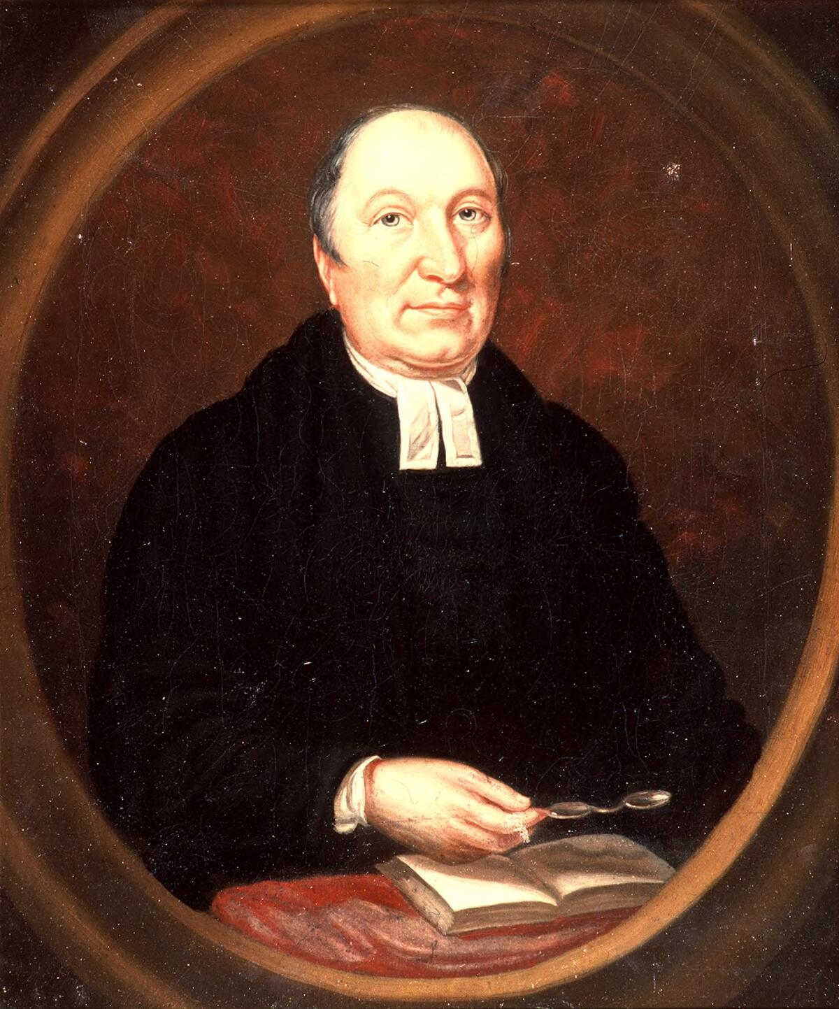 A painting from the Framed Works of Art collection at the National Library of wales.